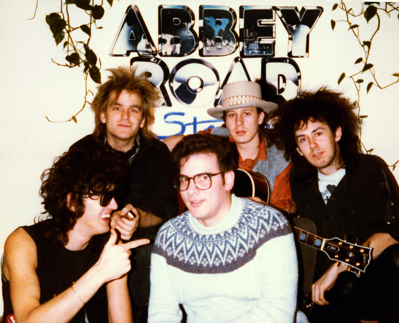 Radio host with band he helped get exposure in America.